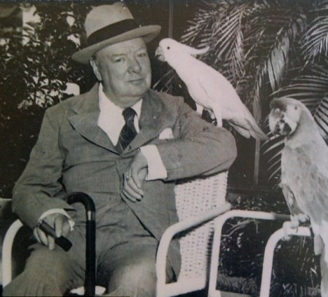 Sir Winston Churchill holds Pinky, the Moluccan Cockatoo, at Miami's Jungle Island in 1946.